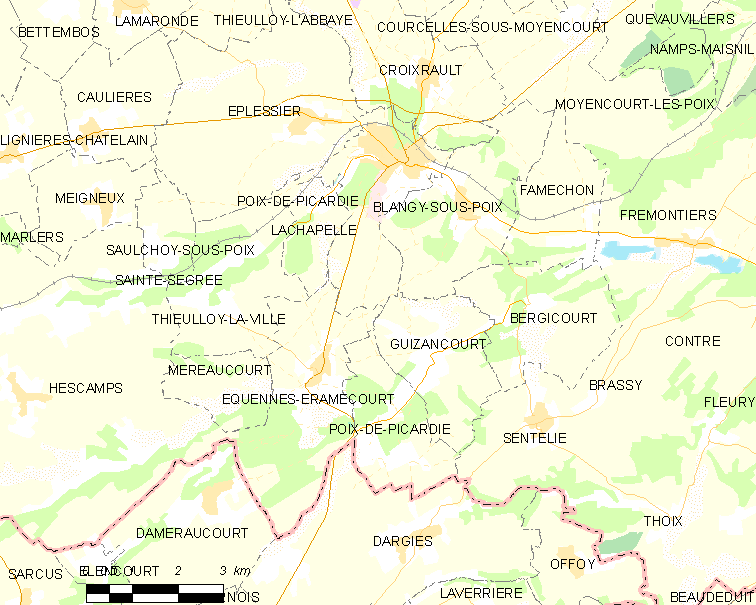 Map of French municipality Poix-de-Picardie